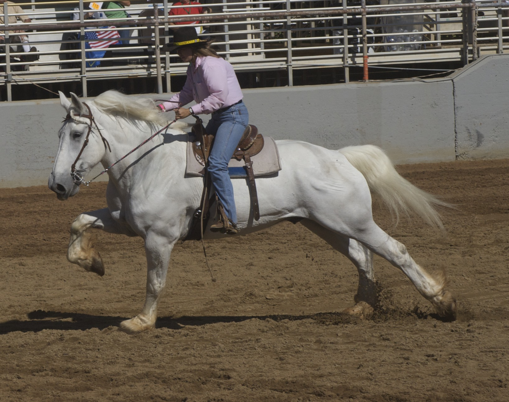 Percheron barrel racing